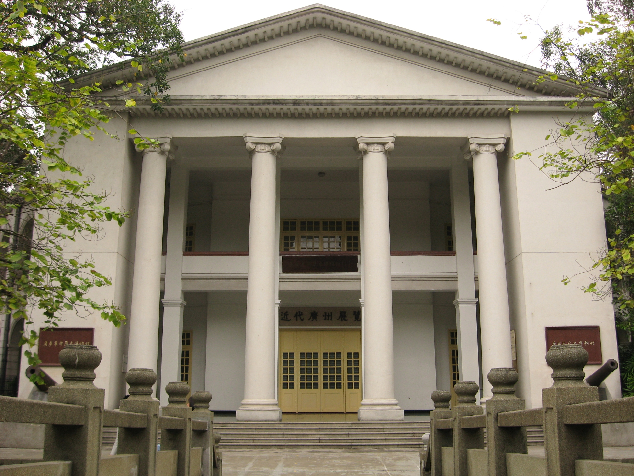 Guangdong Ziyiju